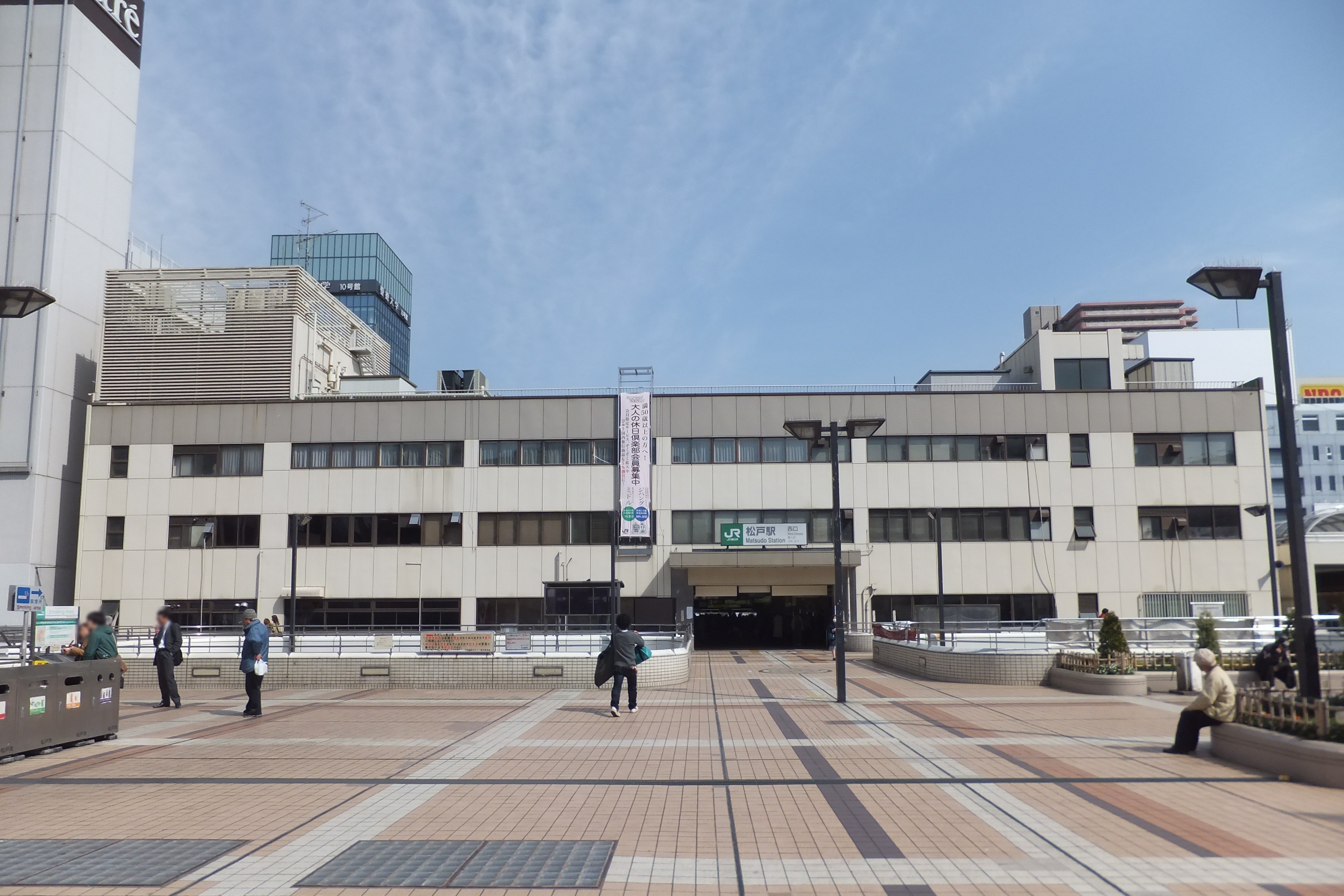 West side of Matsudo Railway Station, in Matsudo, Chiba, Japan.